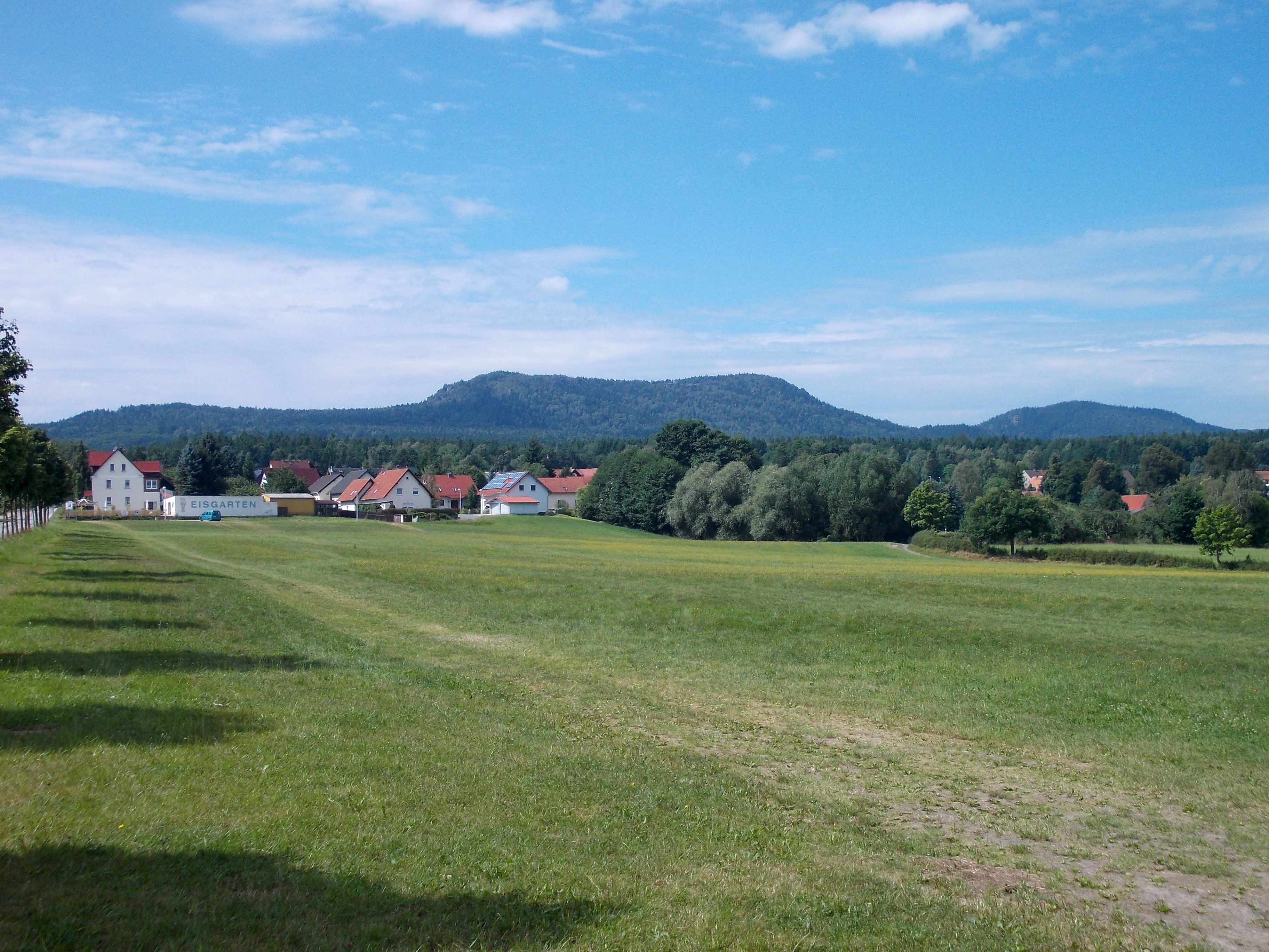 Eichgraben (Zittau, Görlitz district, Saxony) from the north-east